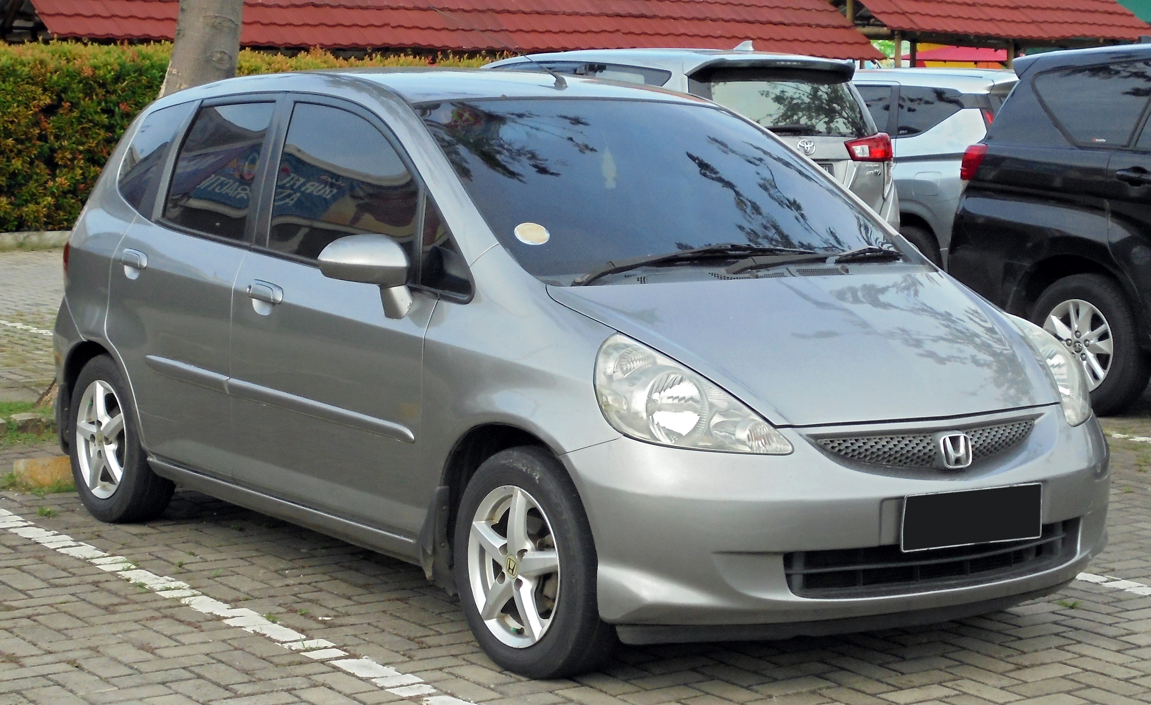 2006 Honda Jazz 1.5 i-DSI hatchback (GD3) photographed in South Tangerang, Banten, Indonesia.